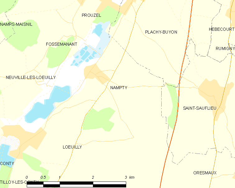 Map of French municipality Nampty